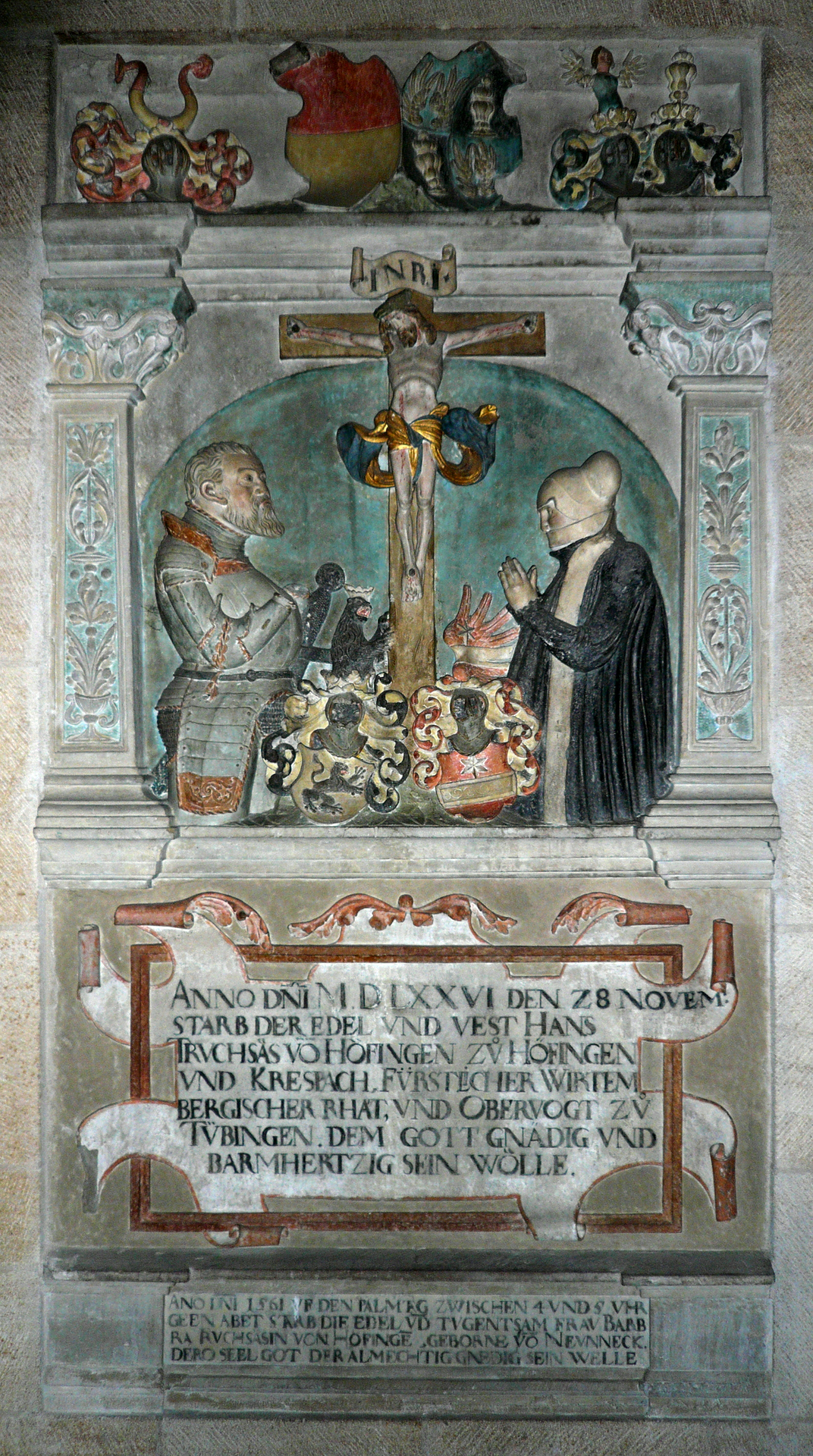 Epitaph of Hans Truchsess of Hoefingen in Stiftskirche, Tuebingen